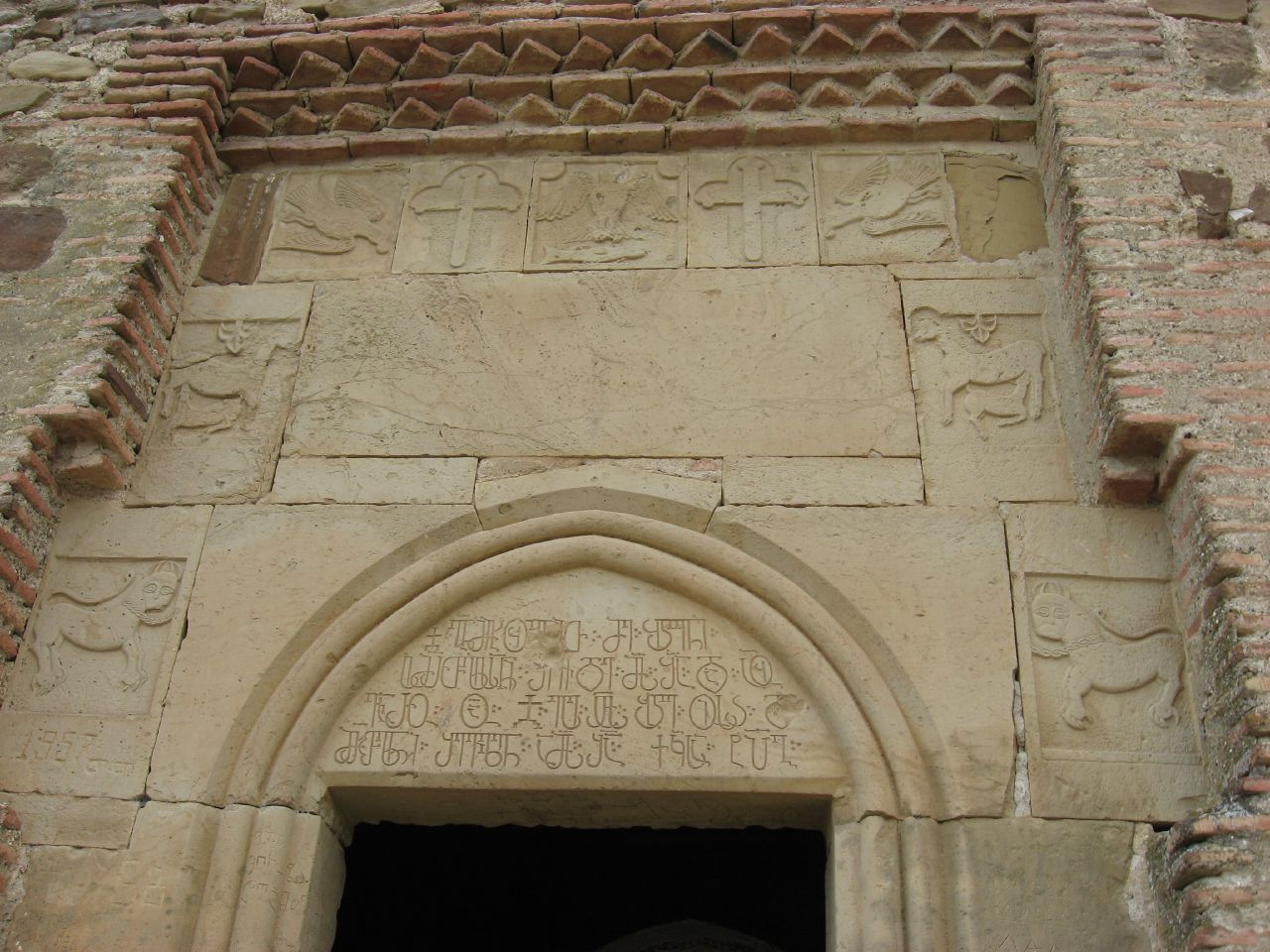 stomtavruli Georgian Alphabet in David Gareja Monastery